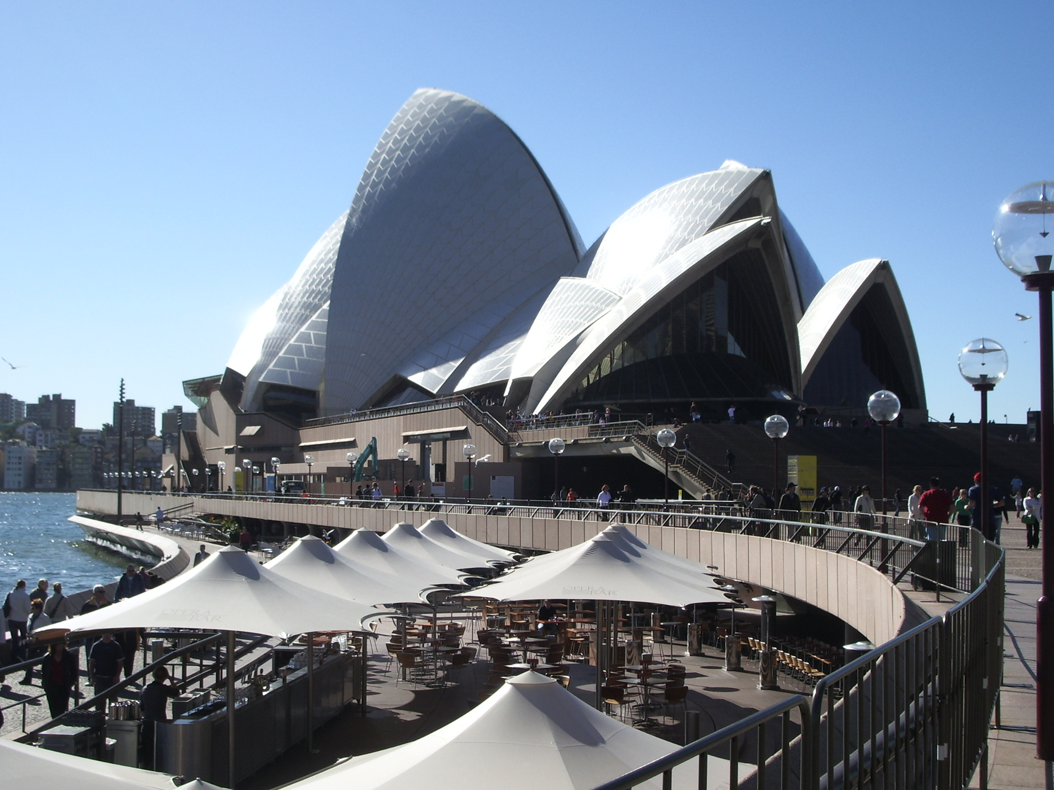 Sydney Opera House